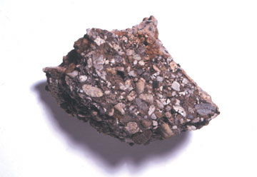 Conglomerate